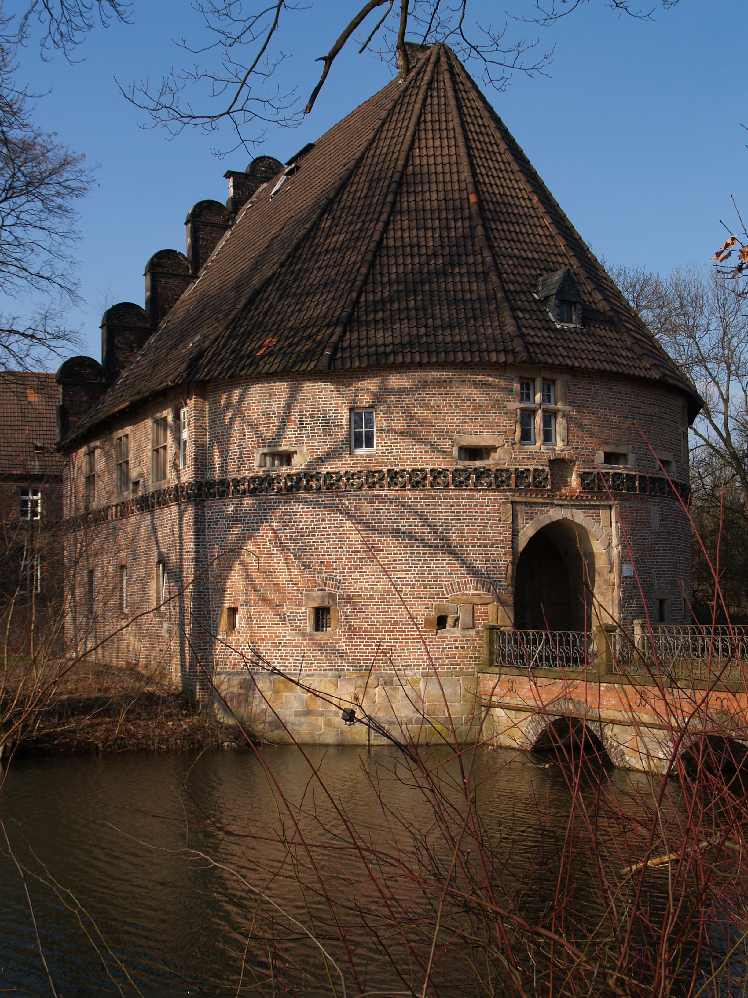 Entrance building of Bladenhorst castle in Castrop-Rauxel, Germany